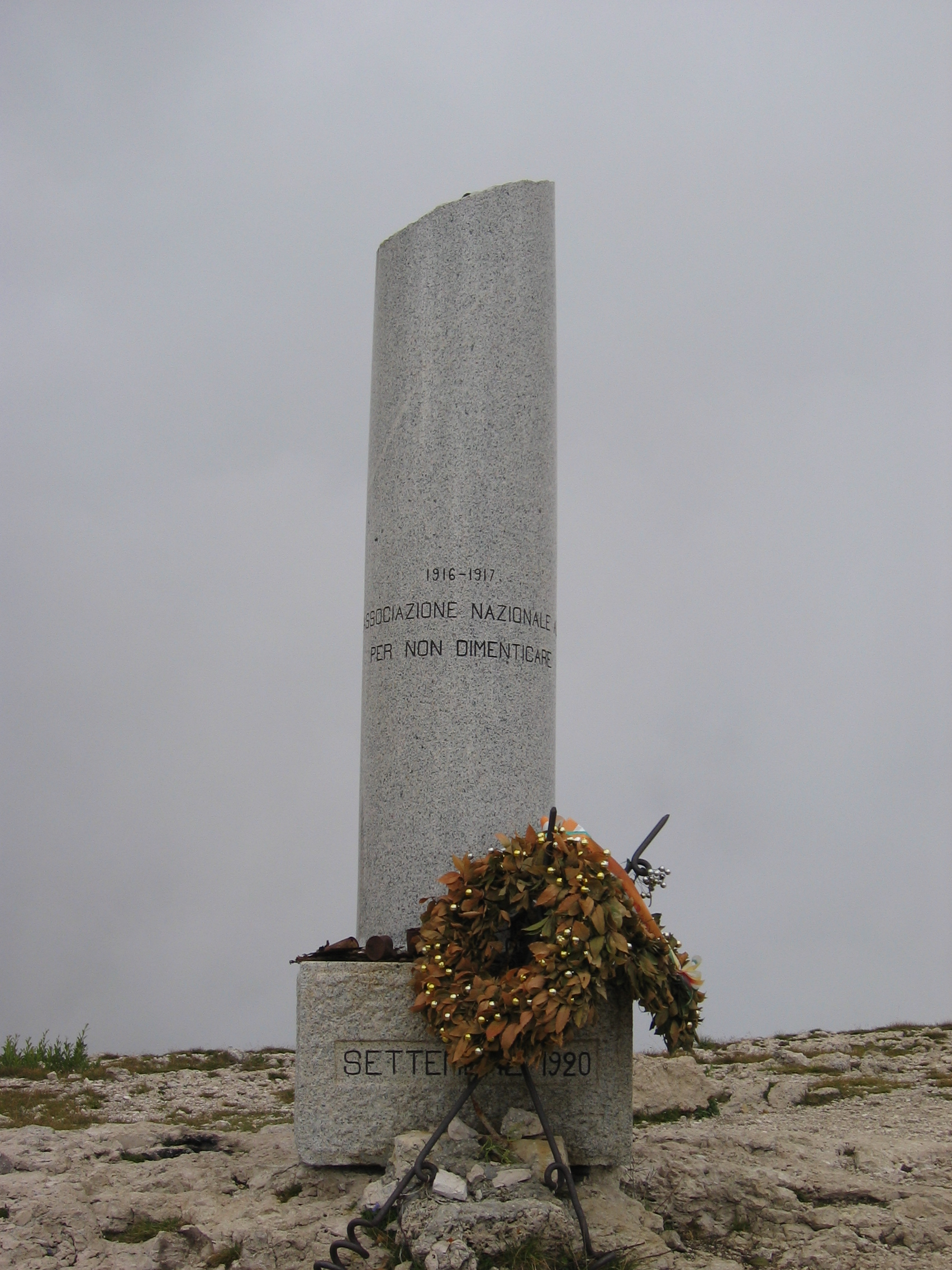 Broken column, Mount Ortigara (Italy)